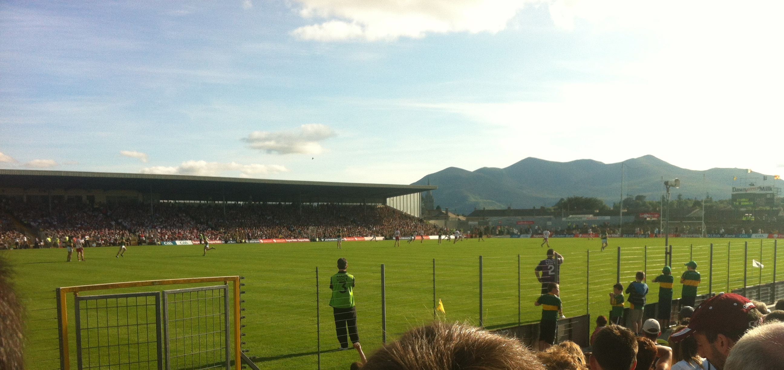 FitzGeraldStadium